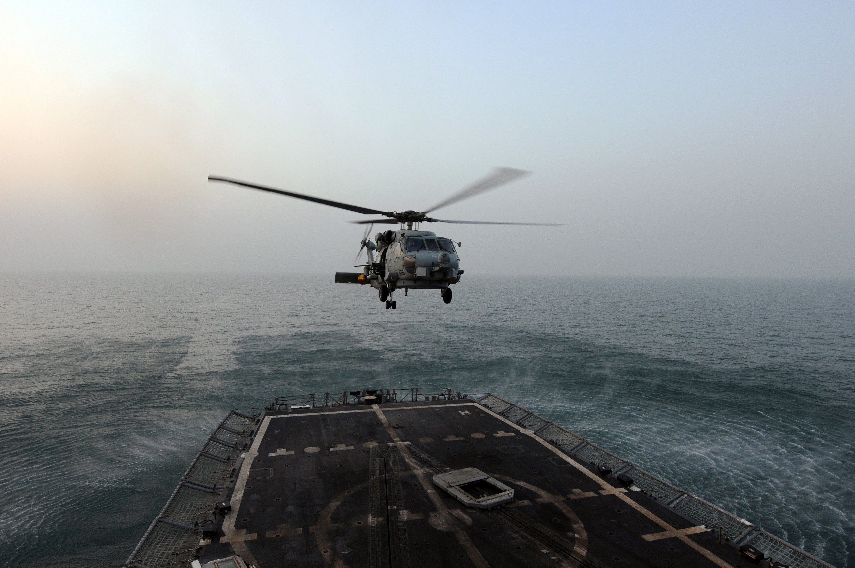 PERSIAN GULF (Aug. 18, 2009) An SH-60B Sea Hawk assigned to the Scorpions of Light Helicopter Anti-Submarine Squadron (HSL) 49 lifts off from the frigate USS Thach (FFG 43). Thach is on a scheduled deployment in the U.S. 5th Fleet area of responsibility. (U.S. Navy photo by Mass Communication Specialist 2nd Class Joseph M. Buliavac/Released)